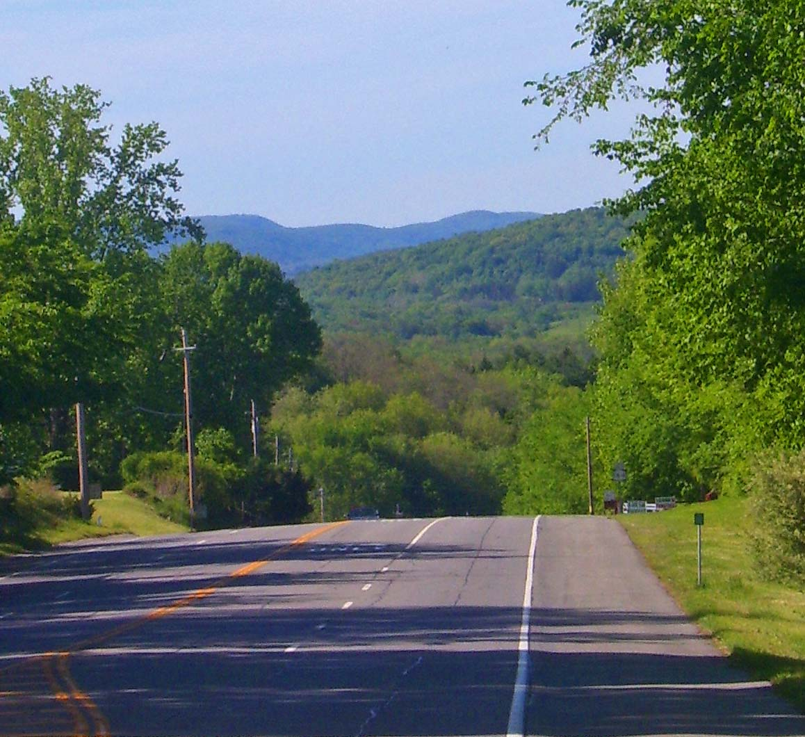 View north into Harlem Valley region of Dutchess County, NY, USA from NY 22 just south of NY 164 junction in Patterson